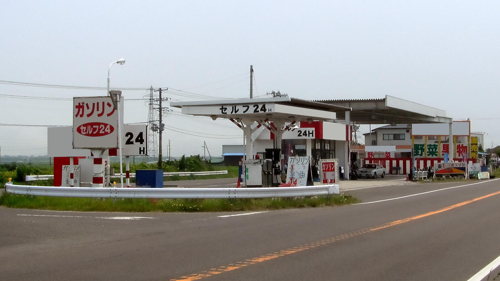 Nobrand_Gas_Stations1